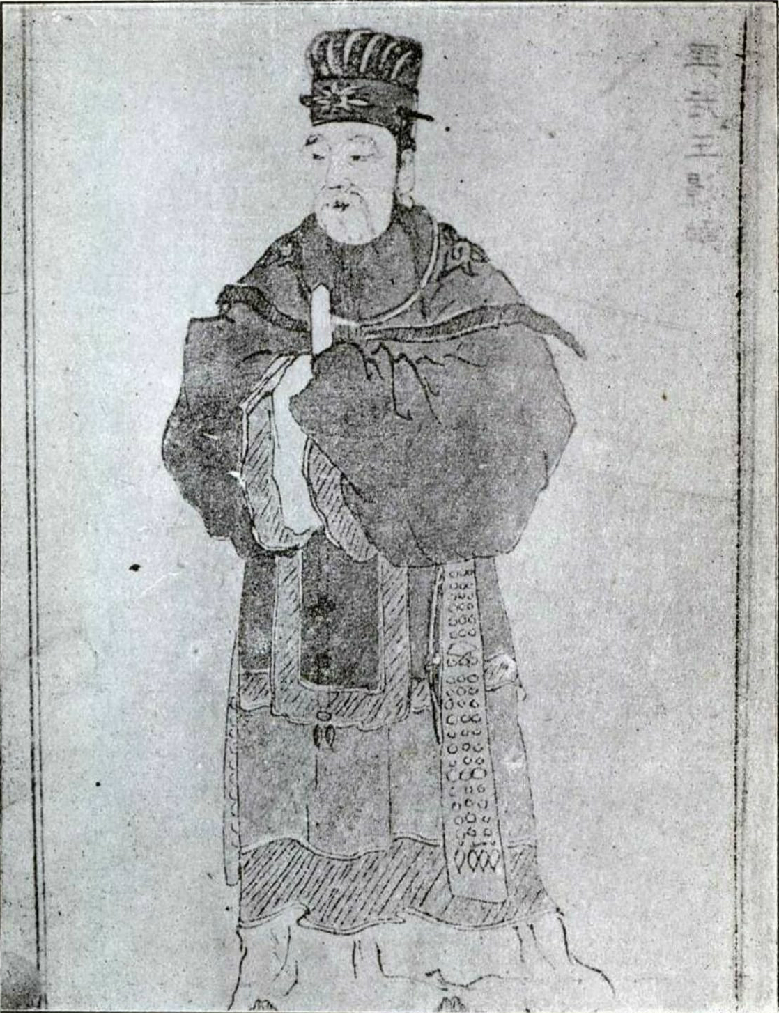 Portrait of Kim Yushin(김유신金庾信) in the "famous portrait photo book of Joseon(조선명현초상화사진첩朝鮮名賢肖像畵寫眞帖)" published in 1926